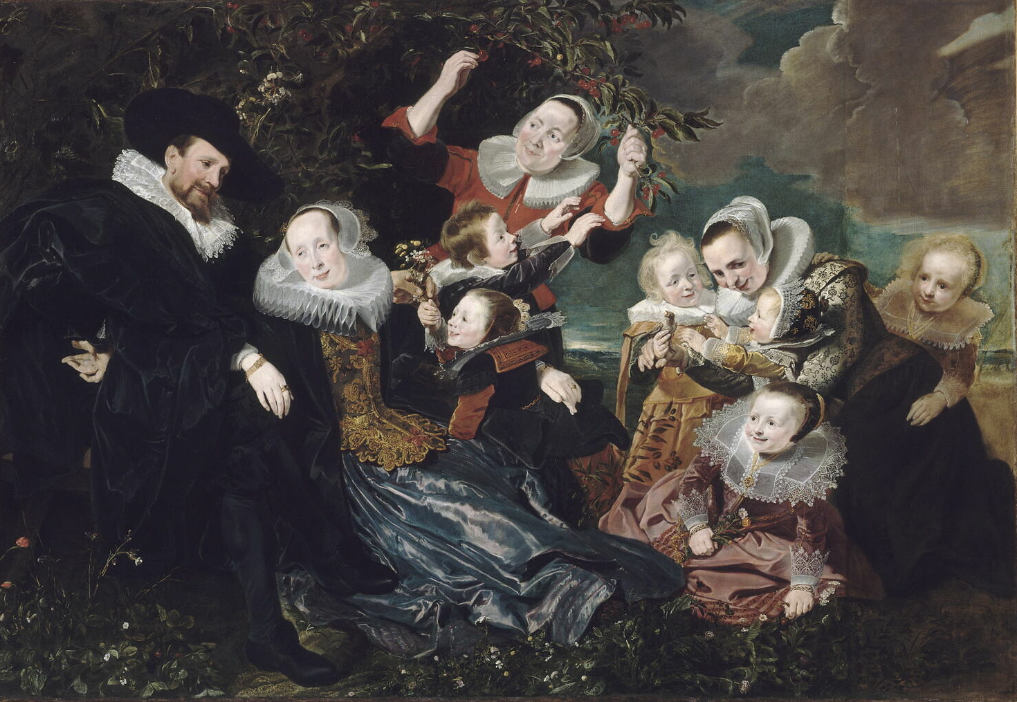 Painting of Beresteyn-van der Eem family, originally in the possession of the Hofje Codde en van Beresteyn. Sold in 1885 (after hanging for 200 years in the Hofje) to the Louvre as a Frans Hals painting. Painting is typical of other period family portraits from Holland, with an attachment on the right for a child born later, but also showing the children from the first marriage of Paulus van Beresteyn as well as Nicolaes and Emerentia, the children of Catharina van der Eem. The painting has been restored and painted over several times. It is probably by Pieter Claesz Soutman, who was a regent of the Hofje, and not Frans Hals.